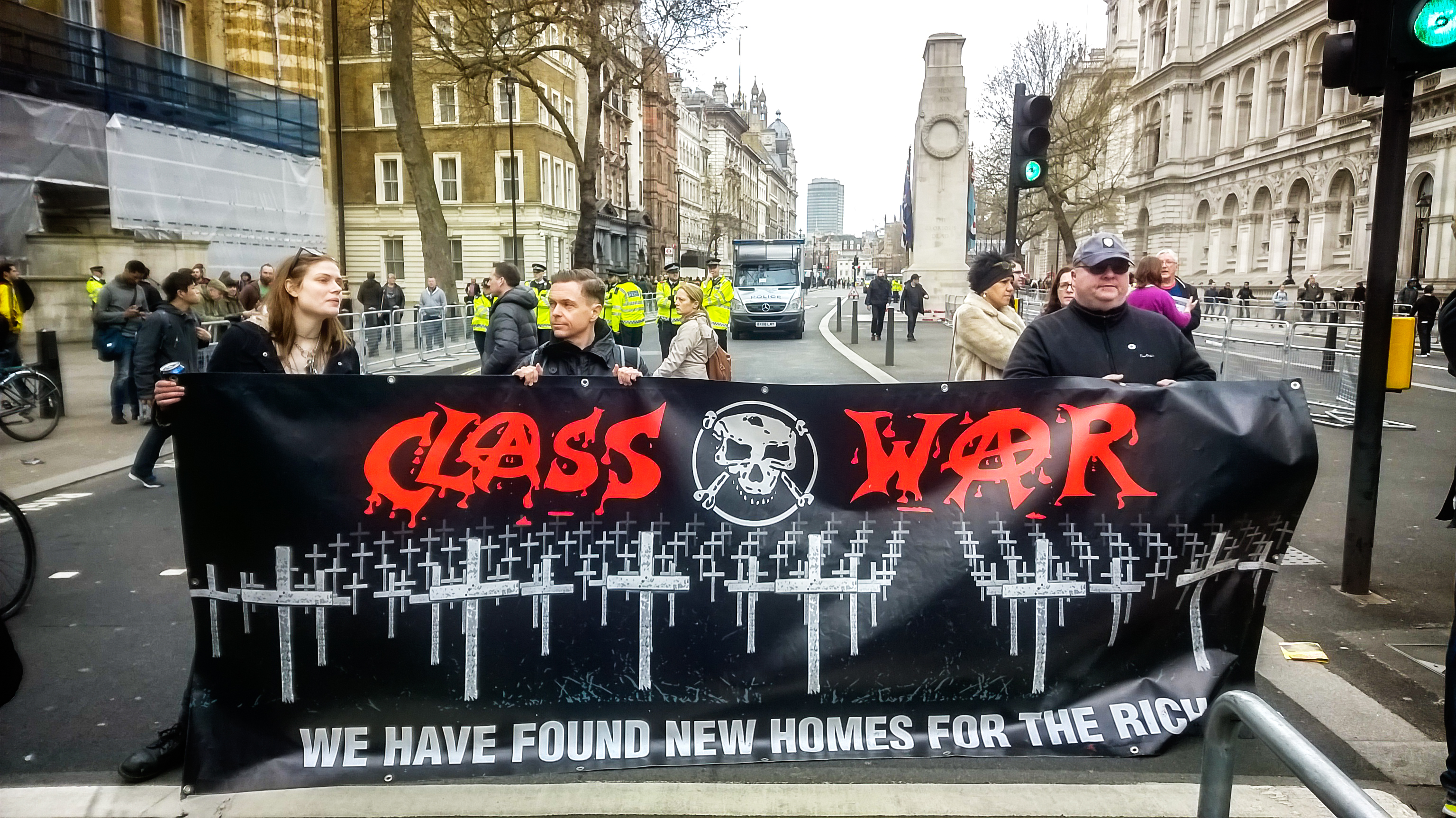 It's always what's behind protests against the Tories.